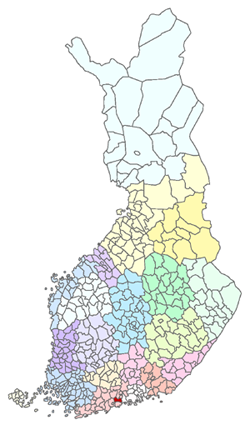 Location of Vantaa, Finland